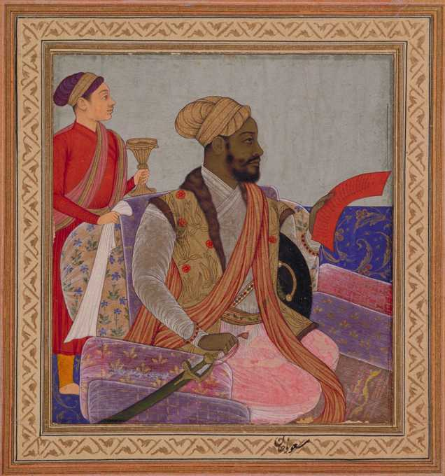 Ikhlas Khan, chief minister of Muhammad 'Adil Shah of Bijapur, c.1650 (downloaded July 2001) "Ikhlas Khan - Prime Minister at the Court of Muhammad 'Adil Shah. By Muhammad Khan, Son of Miyan Chand. 1990:445. Date: around 1650, India, the Deccan, Bijapur. Opaque watercolor and gold on paper. 4 5/8 x 4 1/4 inches (12 x 10.8 cm). Edwin Binney 3rd Collection."